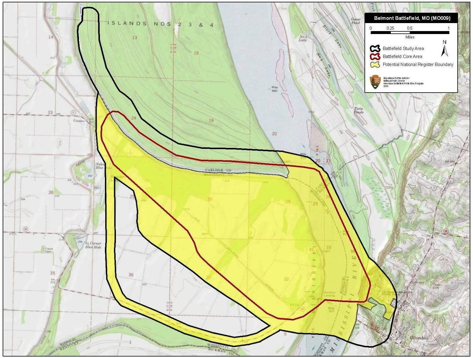 Map of battlefield core and study areas. The revised Study Area represents the Mississippi river’s course as it flowed in 1861 and includes expanded boundaries that incorporate the US naval movements on the river. The ABPP also expanded the Study Area to include the location where Confederate reinforcements crossed the river from Columbus, Kentucky; the fortifications near Columbus known as the “Iron Bluffs;” and the 27th Illinois Infantry’s route of withdrawal to the army’s landing point on the river (the 27th became separated from the main Union force during the battle). The ABPP also expanded the Core Area to represent the range of Confederate guns firing from the “Iron Bluffs” and the range of the guns on board the USS Tyler and the USS Lexington, which provided covering fire for the Federal retreat.